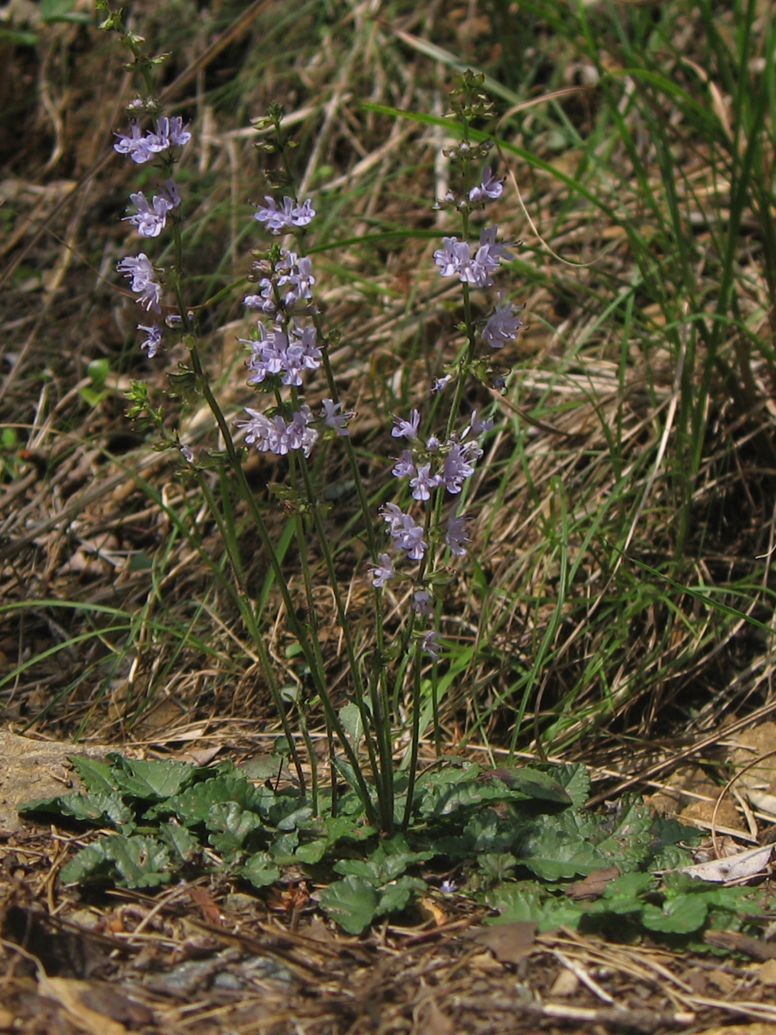 Salvia isensis Nakai ex HaraDate taken(YYYY-MM-DD): 2010-08-22 Place taken: Mt. Asama area, Ise-Shima National Park, Ise, Mie, Japan.